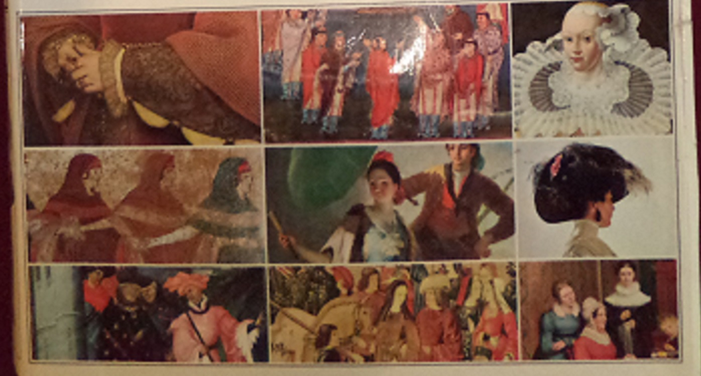 Bottom half of book cover of 20,000 Years of Fashion: The History of Costume and Personal Adornment (top half is title accompanied by photo of designer dress by Paul Poiret)